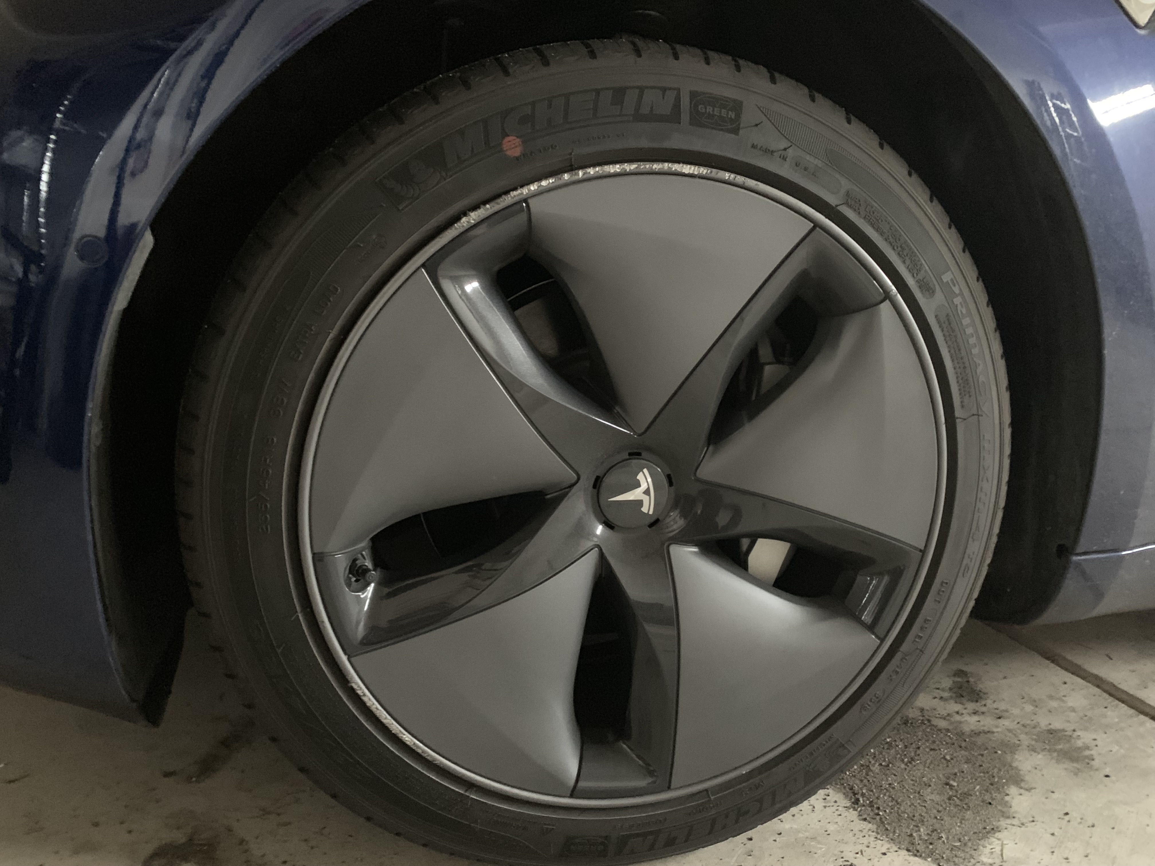 Closeup of a Tesla Model 3 with the aero wheels option